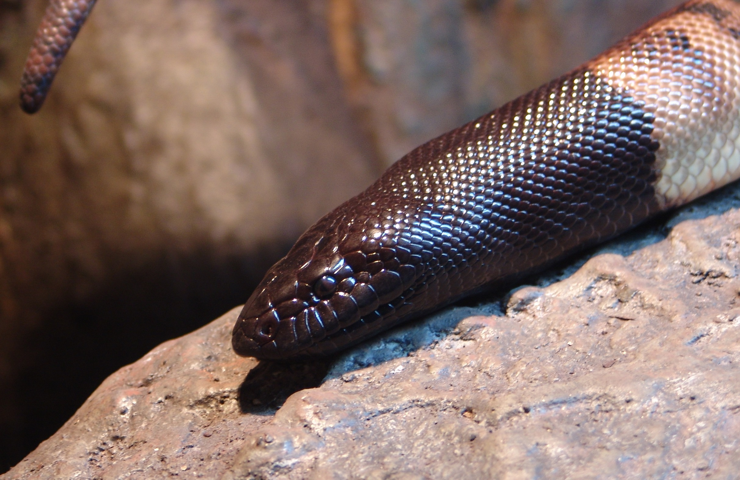 Blackheader Python at Wilmington's Serpentarium. I took the picture.